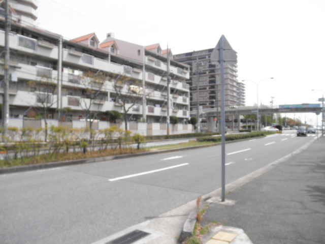 Kojidai5 Nishi-ku Kobecity Hyogopref